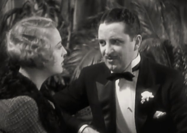 Dorothy Mackaill & Bryant Washburn in Kept Husbands - cropped screenshot